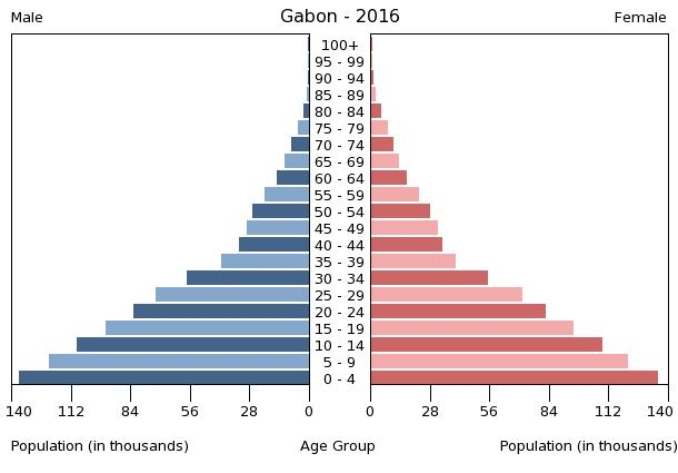 The population pyramid of Gabon illustrates the age and sex structure of population and may provide insights about political and social stability, as well as economic development. The population is distributed along the horizontal axis, with males shown on the left and females on the right. The male and female populations are broken down into 5-year age groups represented as horizontal bars along the vertical axis, with the youngest age groups at the bottom and the oldest at the top. The shape of the population pyramid gradually evolves over time based on fertility, mortality, and international migration trends.